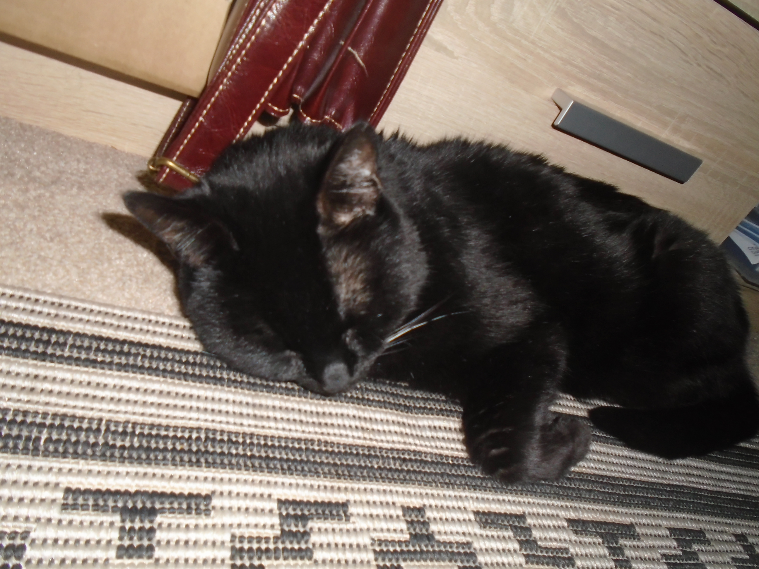 this is lilly , a black cat that is so lazy